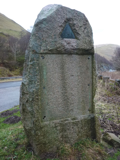 Metal theft at the Civic Award Trust monument